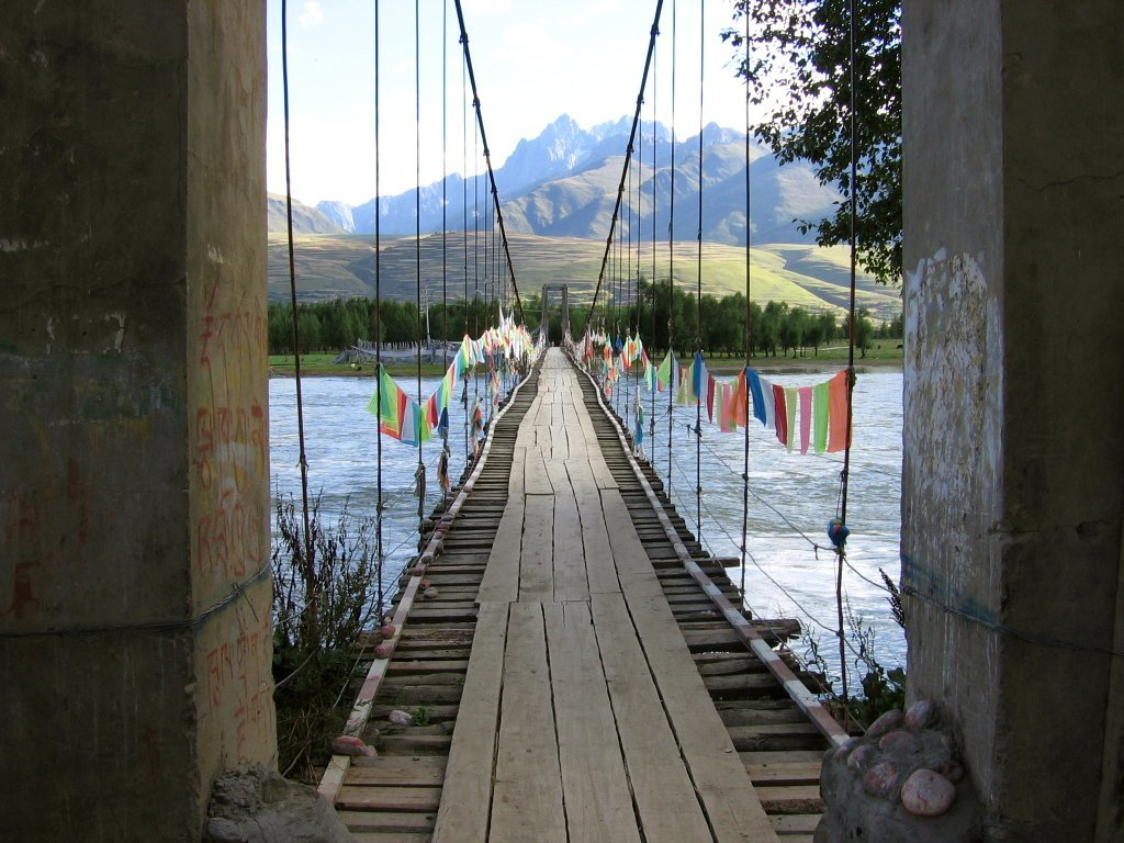 Ganzi (Garze) is a town in Garzê Tibetan Autonomous Prefecture in western Sichuan Province, China. It is an ethnic Tibetan township located in the historical Tibetan region of Kham.